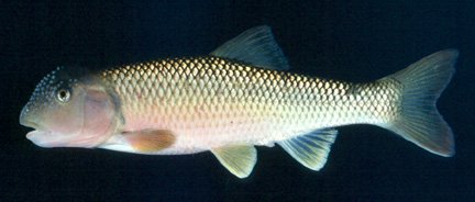 Crop of file in filename